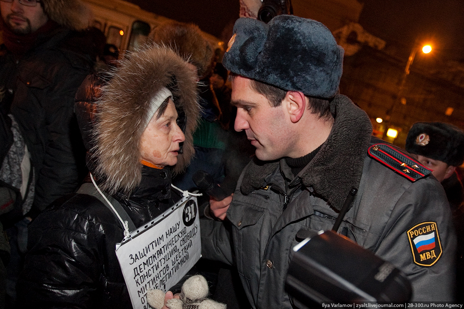 Protest action in defense of Article 31 (Freedom of assembly) of the Russian Constitution. Moscow, January 31, 2010